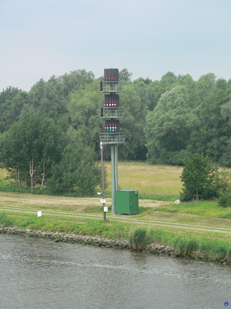 Traffic-light on Kiel-Channel